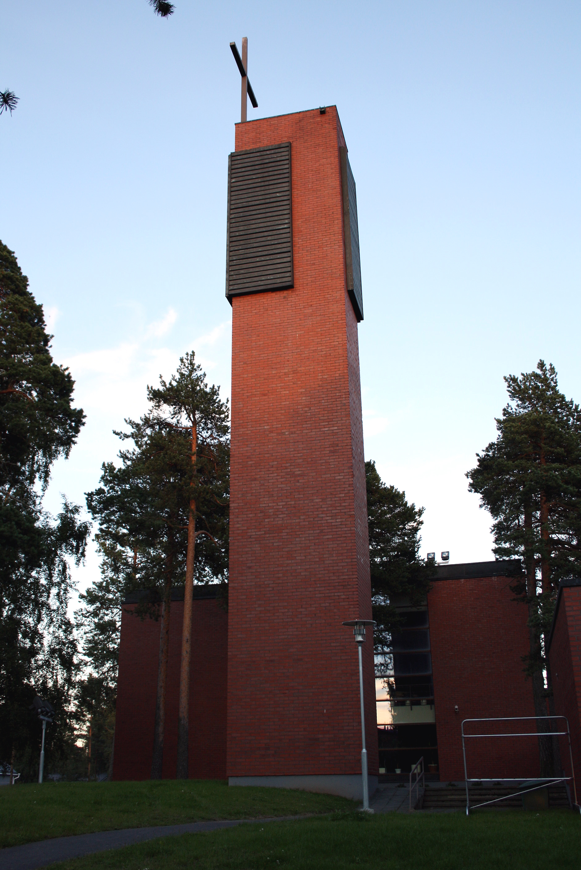 Ykspihlaja Church in Ykspihlaja, Kokkola, Finland.